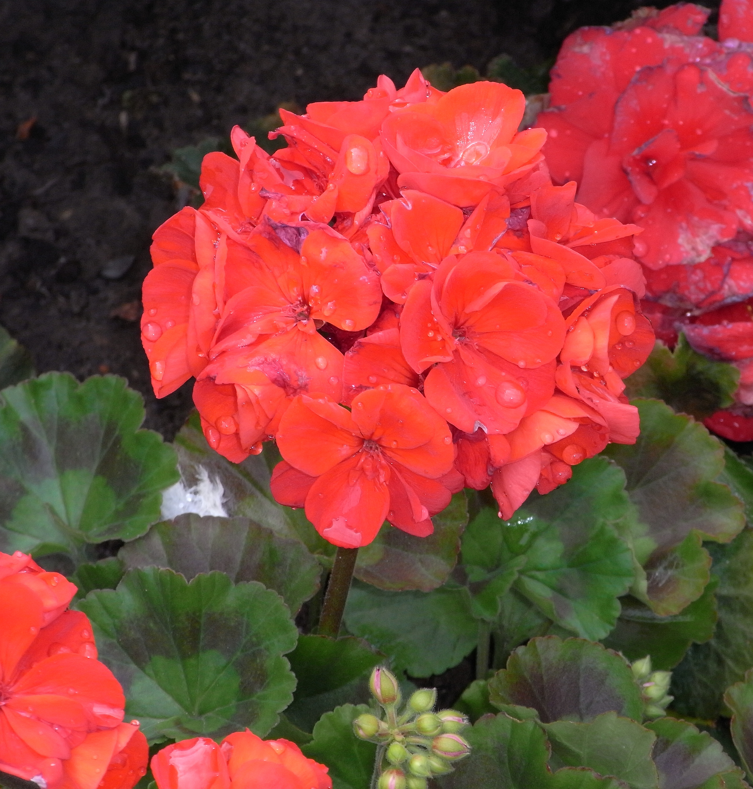 Pelargonium